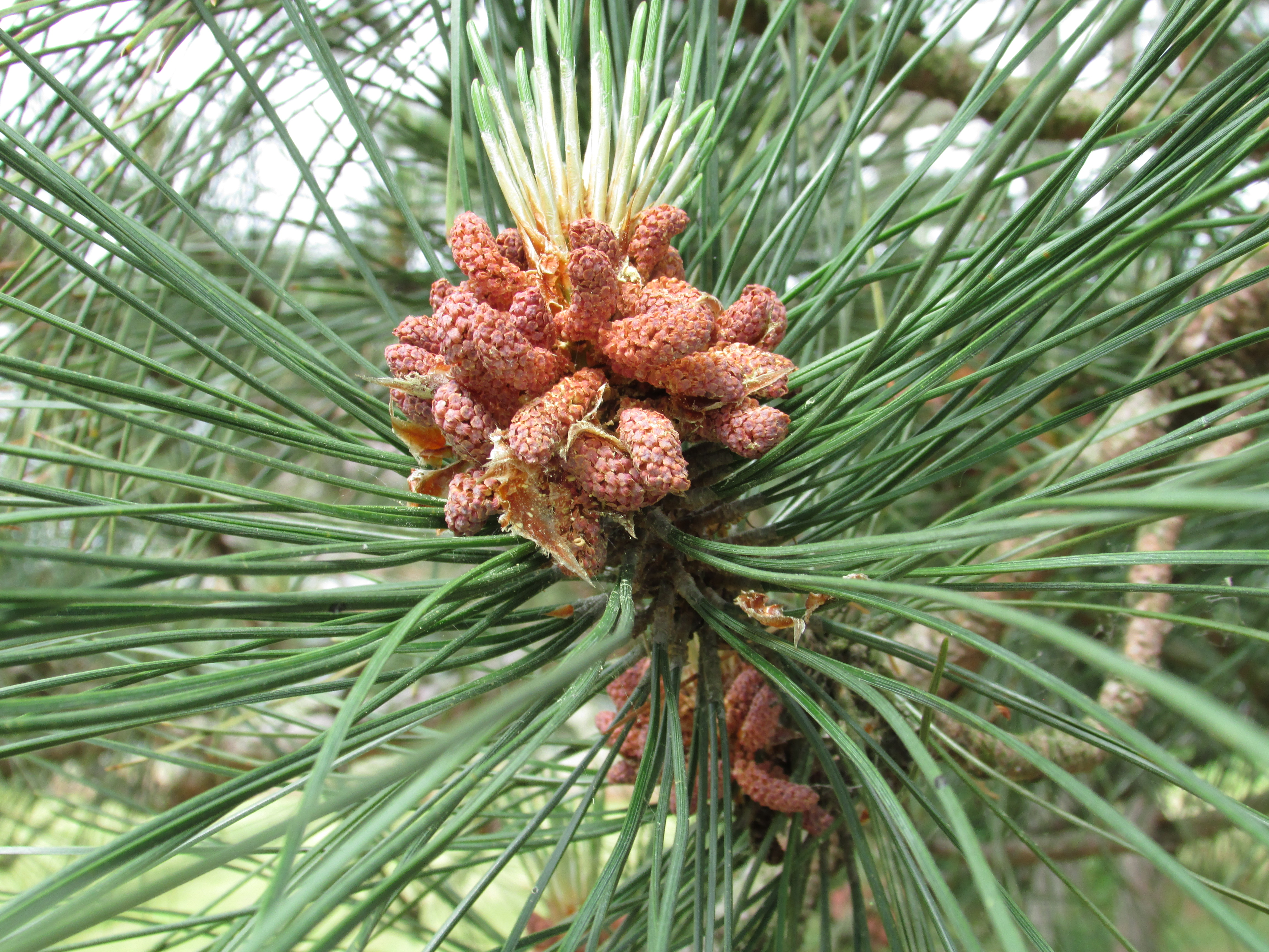 Red Pine (Pinus resinosa), male flower at the tip of the branch.